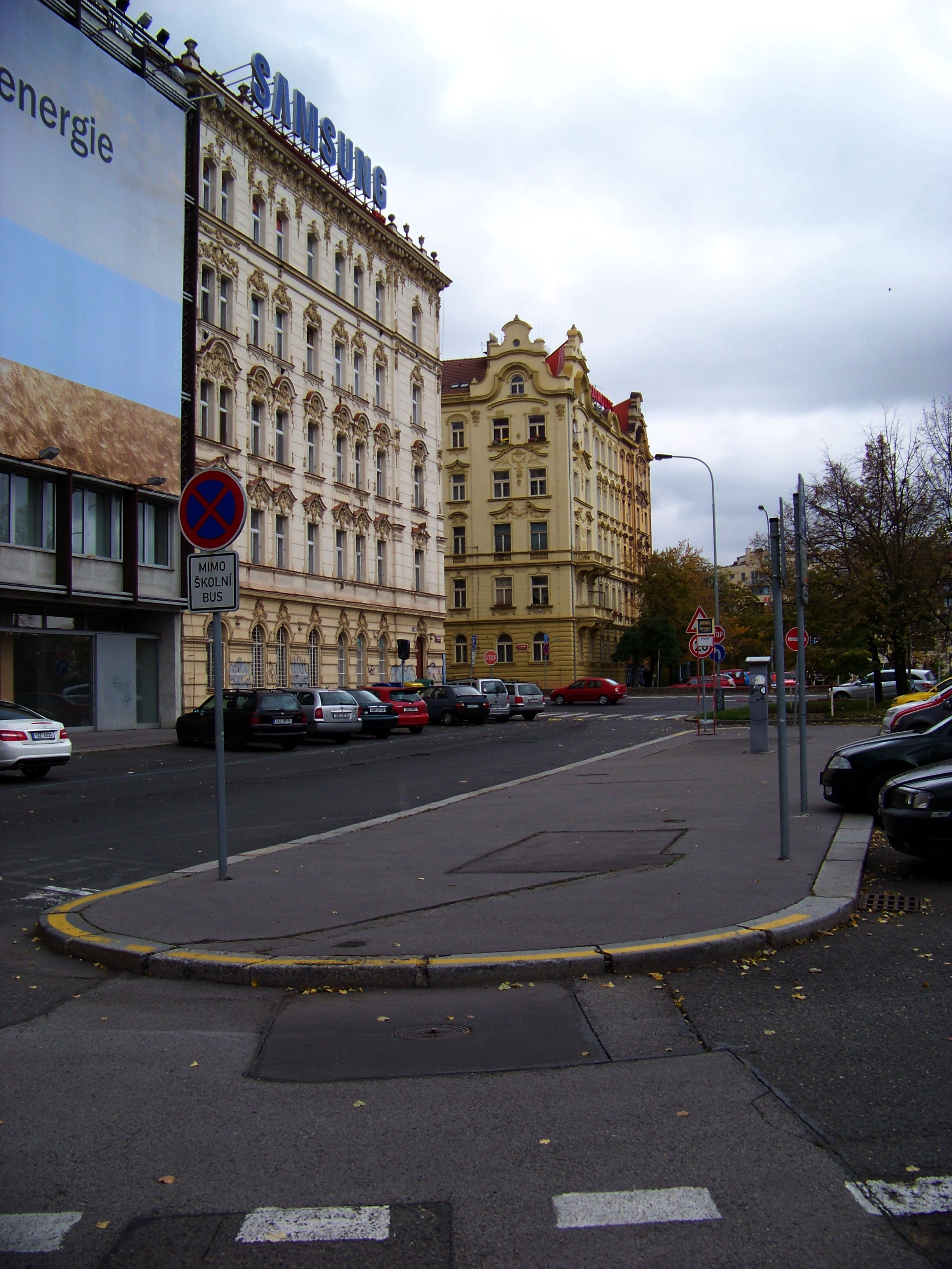 Prague-New Town, the Czech Republic. Houses Boženy Němcové 1881/5 and Boženy Němcové 1879/9 (Legerova 1879/3) and Boženy Němcové 1335/11 (Legerova 1335/2).